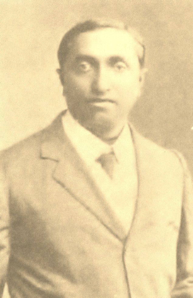 Photograph of well respected Inspector in the Ceylon Police Force and father of 3rd Prime Minister of Ceylon Sir John Lionel Kotelawala,John Kotelawala. Snr (1865-1908)